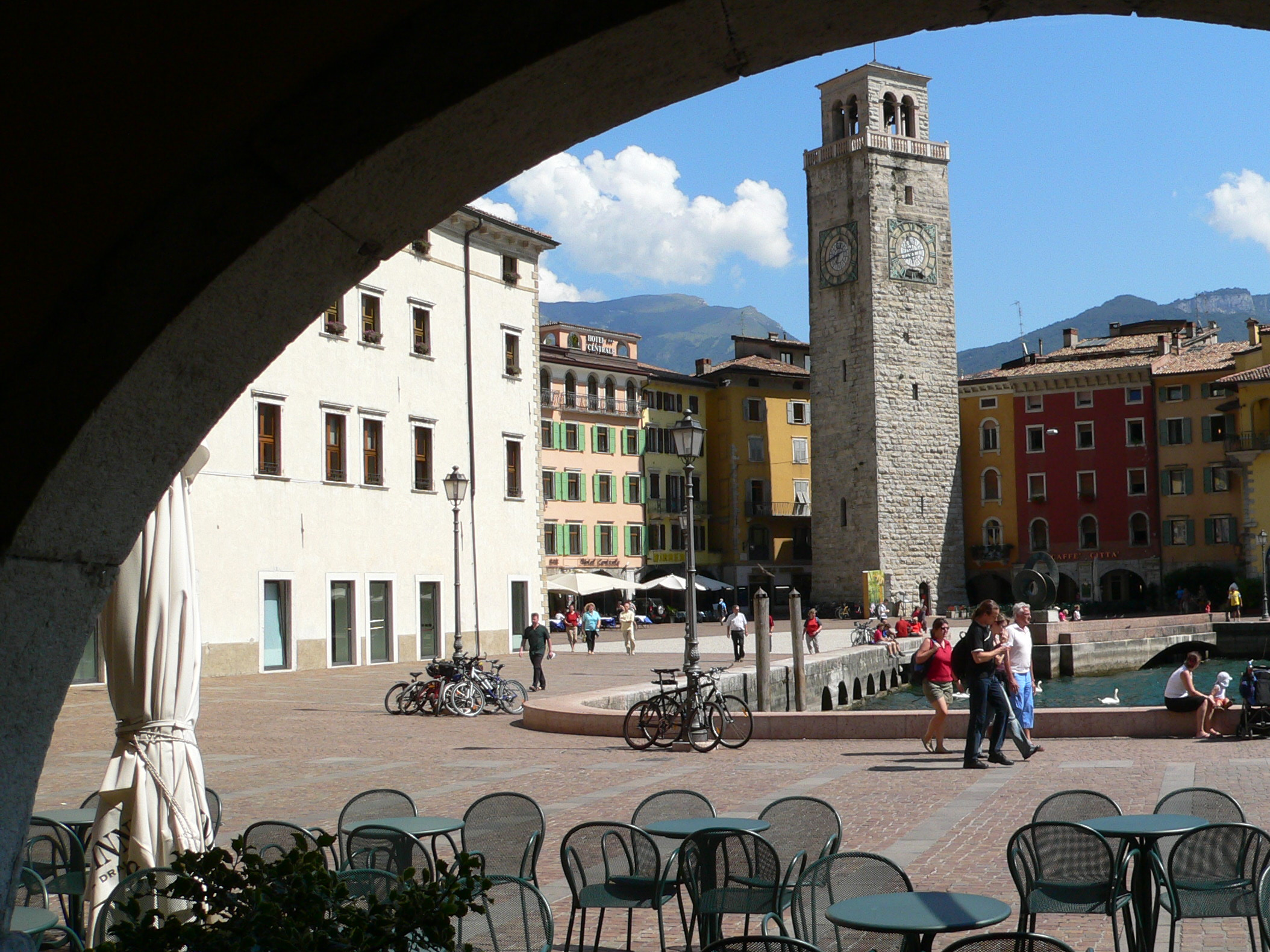 Place Piazza 3 Novembre with tower Torre Apponale in Riva del Garda